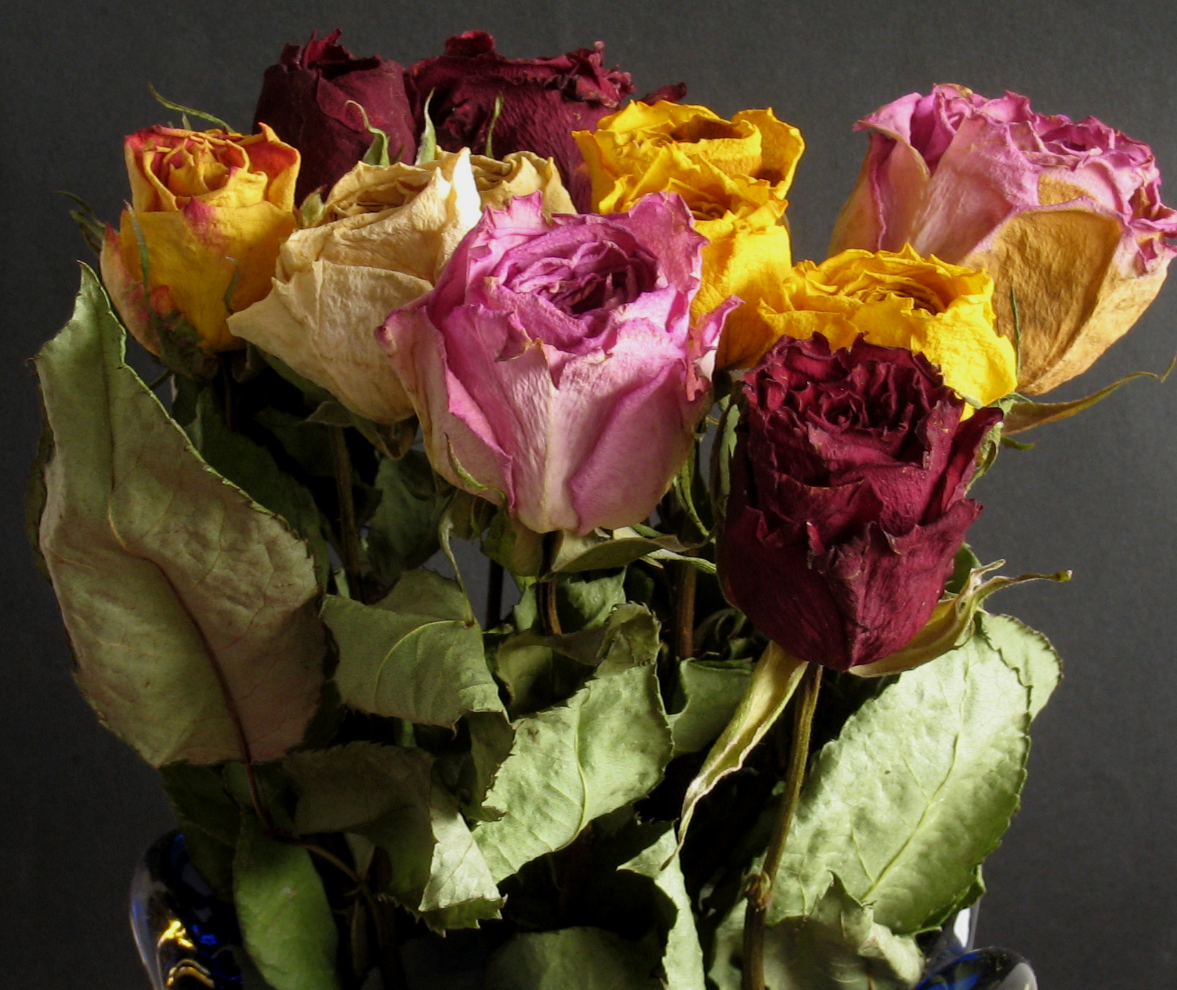 Bunch of dried roses